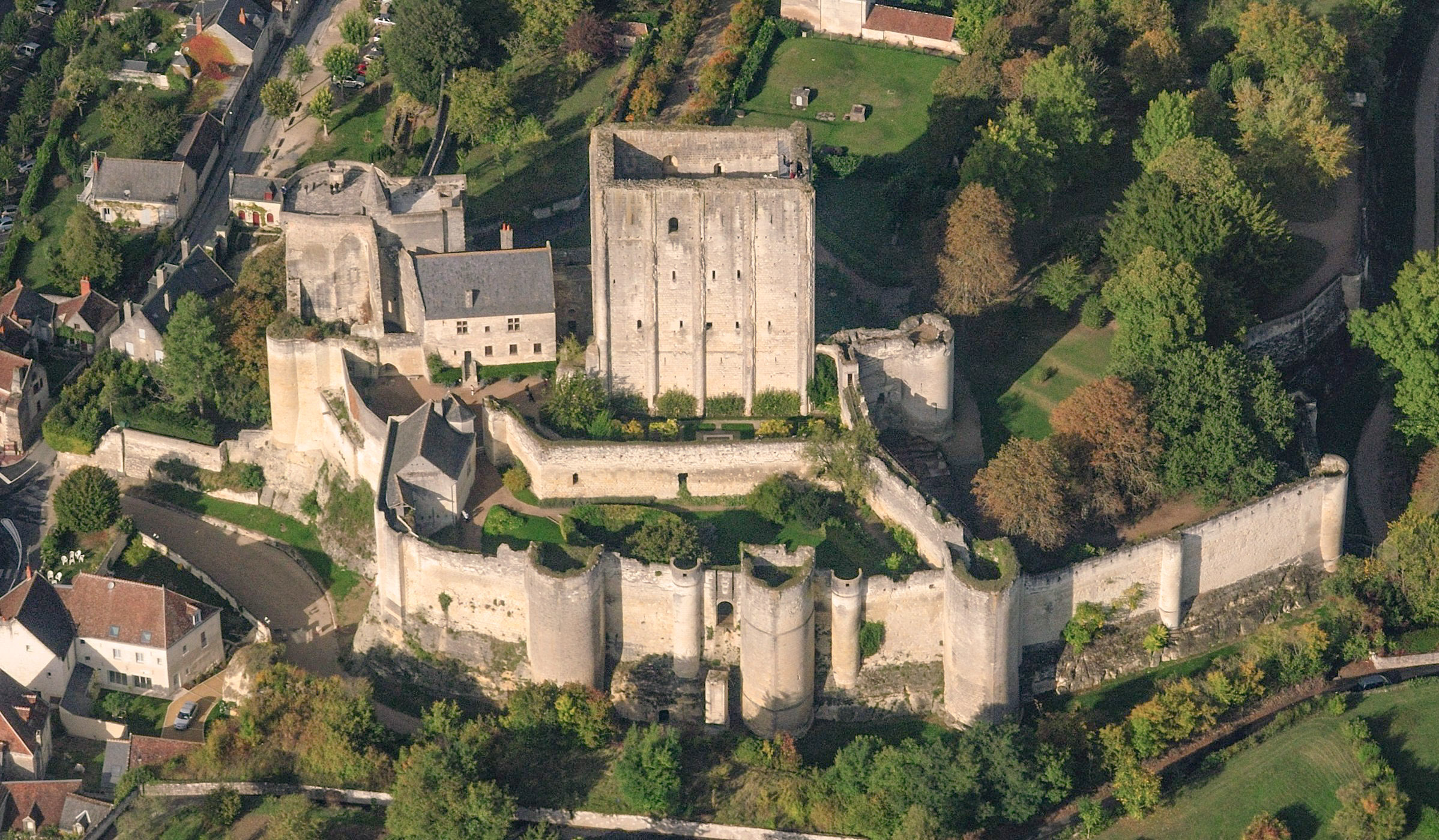 Aerial view from the West towards the dungeon of Loches (Indre-et-Loire department, France). Nikon D60 f=55mm f/11 at 1/500s ISO 400. Processed using Nikon ViewNX 1.3.0 and GIMP 2.6.6.